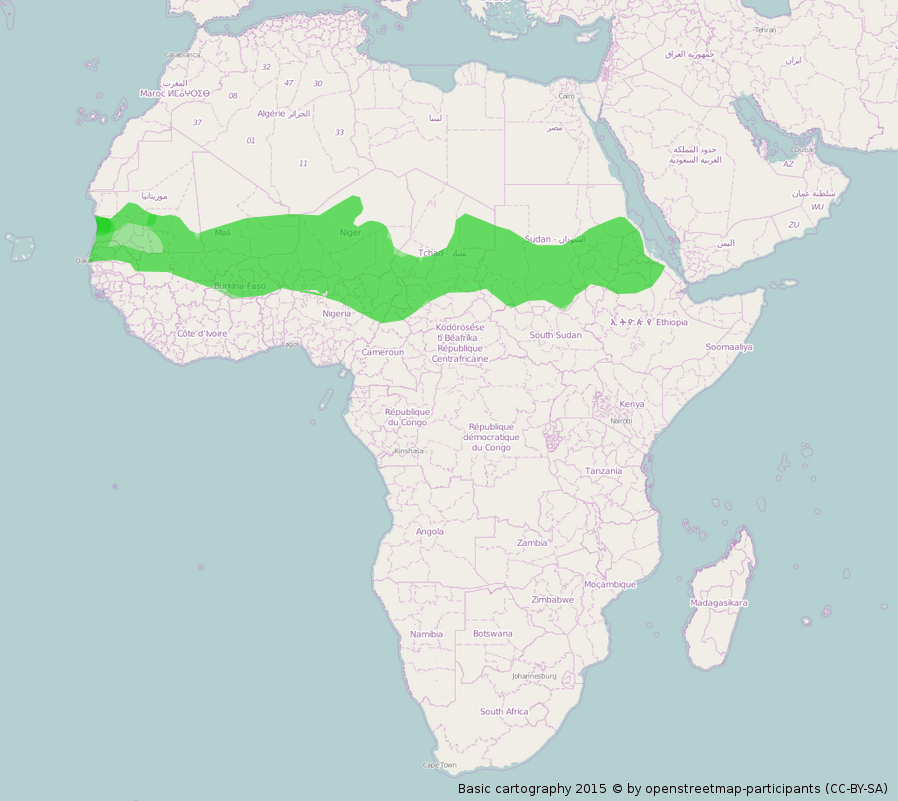 Distribution area Chestnut-bellied Glossy Starling (Lamprotornis pulcher)